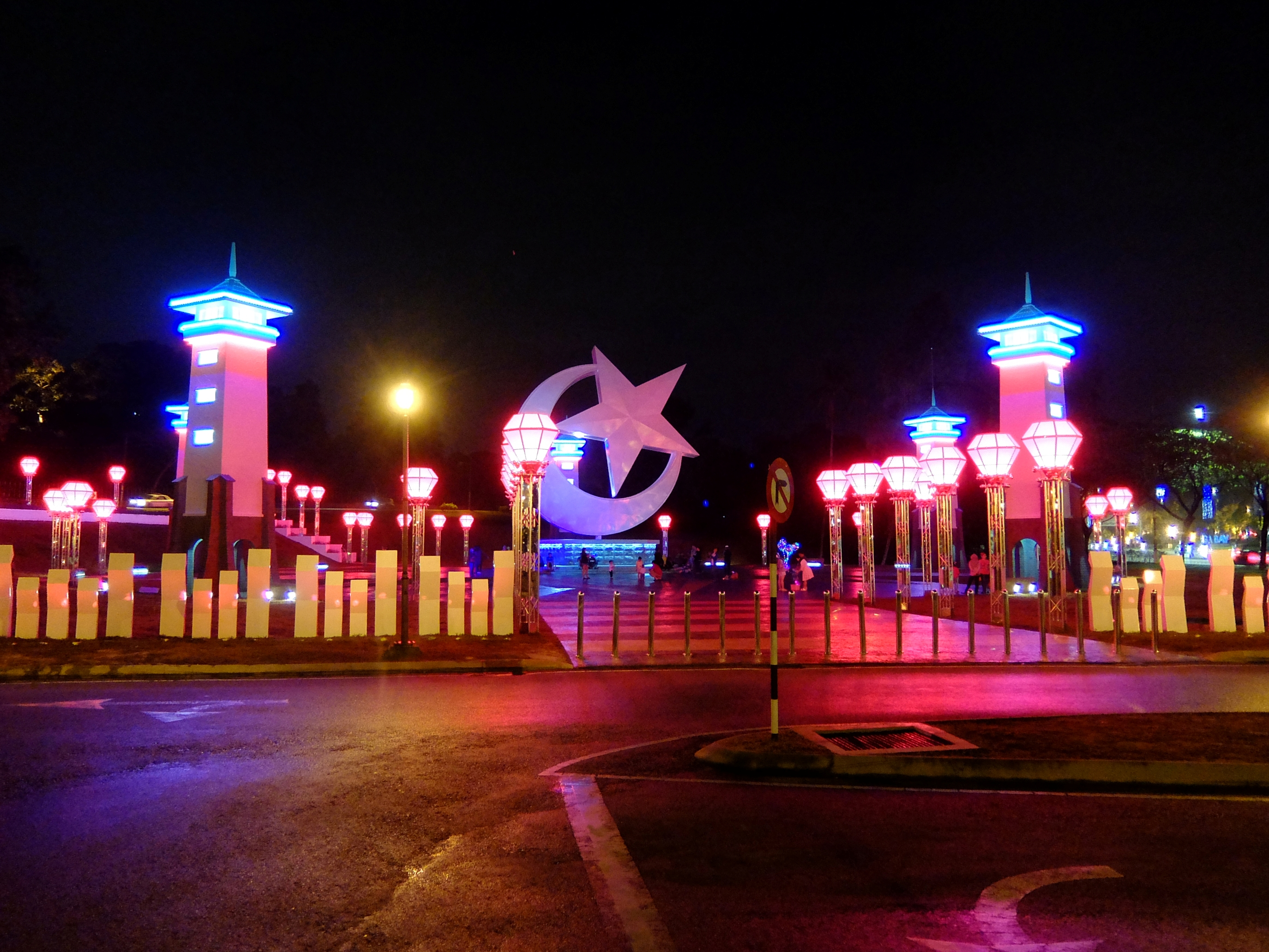 Serene Square, Johor Bahru, Johor, Malaysia